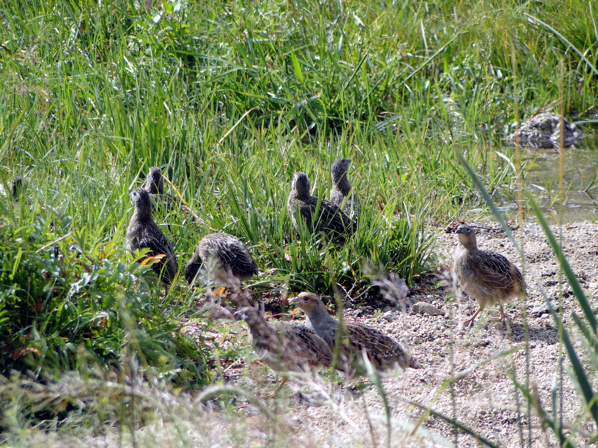 A family group of Daurian Partridge Perdix dauurica, Khustain Nuruu National Park, Mongolia